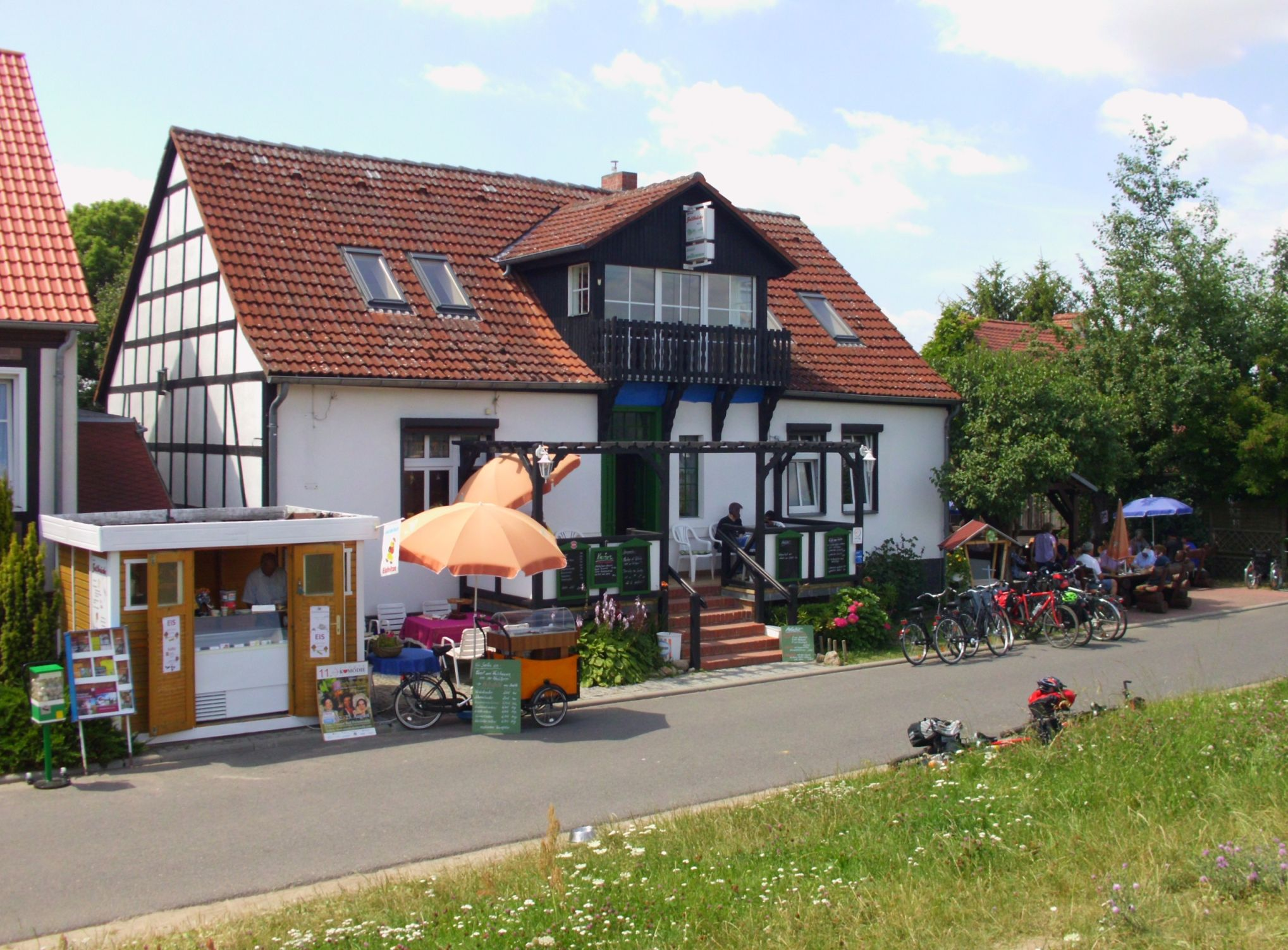 Eating house Zollbrücke on the Oder River dike